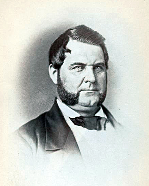 William Montgomery, US Representative from Pennsylvania